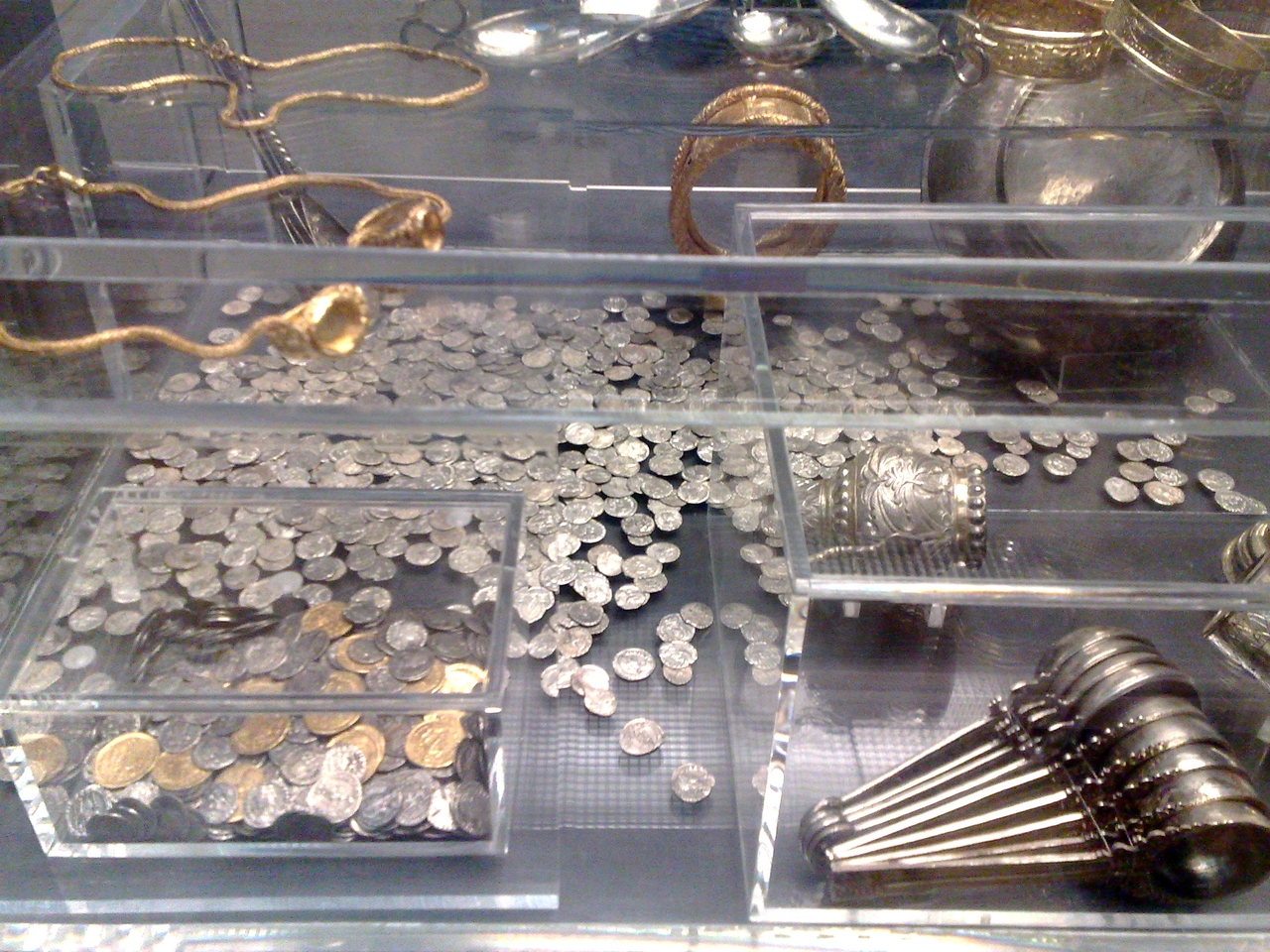 Hoxne Hoard photo taken by me in the British Museum with an N82 mobile phone, no flash, behind glass.